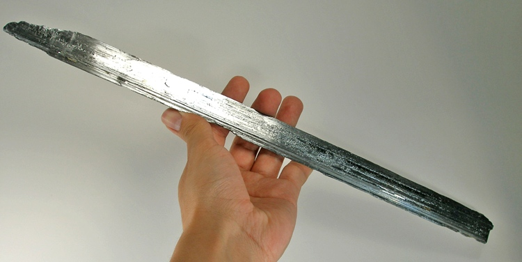 Stibnite Locality: Qinglong (Dachang) Sb-Au deposit, Qinglong County, Qianxi'nan Autonomous Prefecture, Guizhou Province, China (Locality at ) Size: 40.5 x 2.4 x 1.3 cm. A huge stibnite "wand" from a new find in China. This metallic-bright, huge crystal is well-striated. One end is partially terminated and contacted and the other end is contacted. We received this from our source in China in June, 2009.